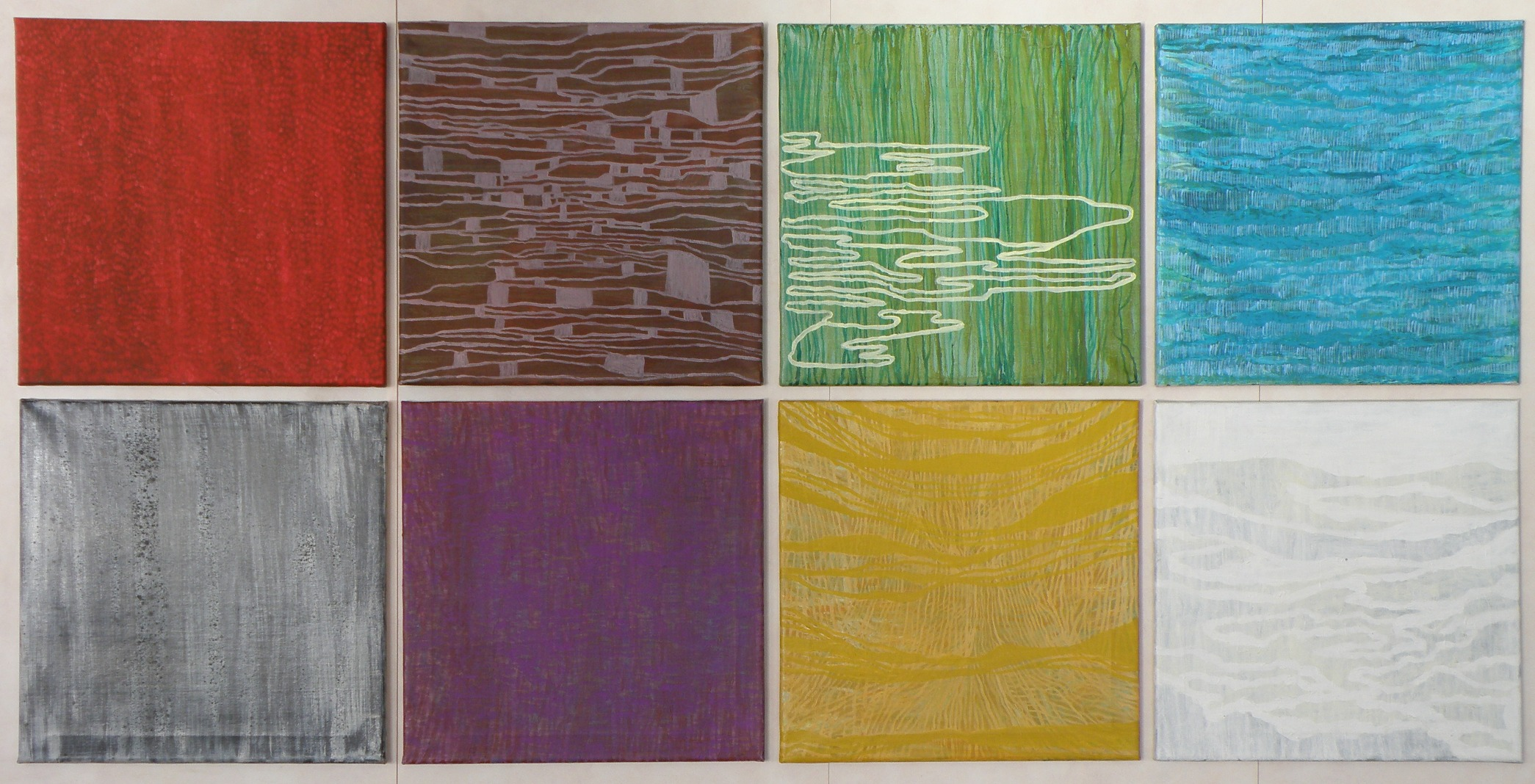 Art Works by Aggi Ásgerð Ásgeirsdóttir from the Faroe Islands. The paintings are hanging on board the ferry Smyril M/S which is sailing daily on the route between Tórshavn and Suðuroy in the Faroe Islands.